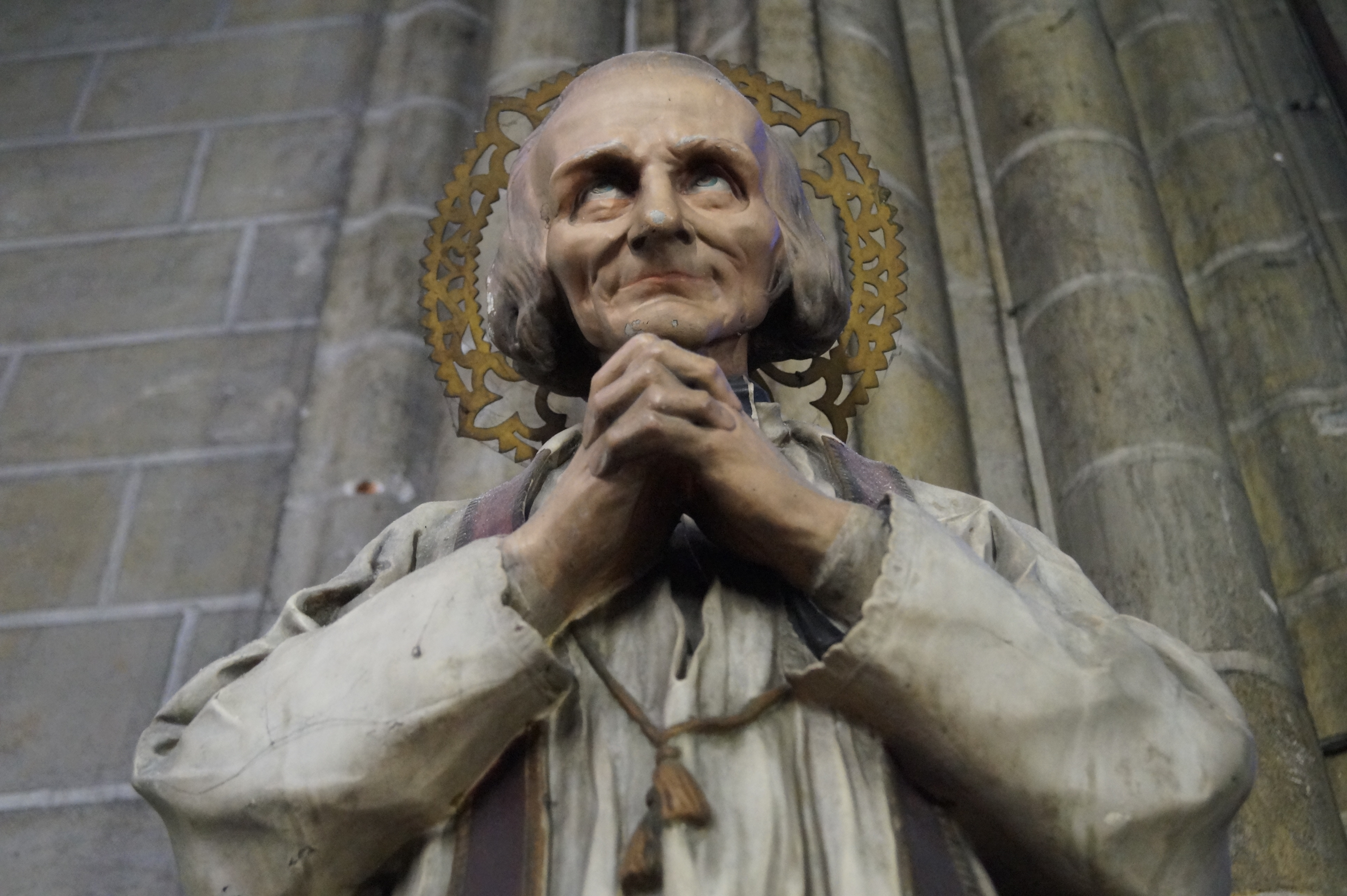 Sculpture of Jean-Marie Vianney in Sint-Petrus-en-Pauluskerk (Oostende)